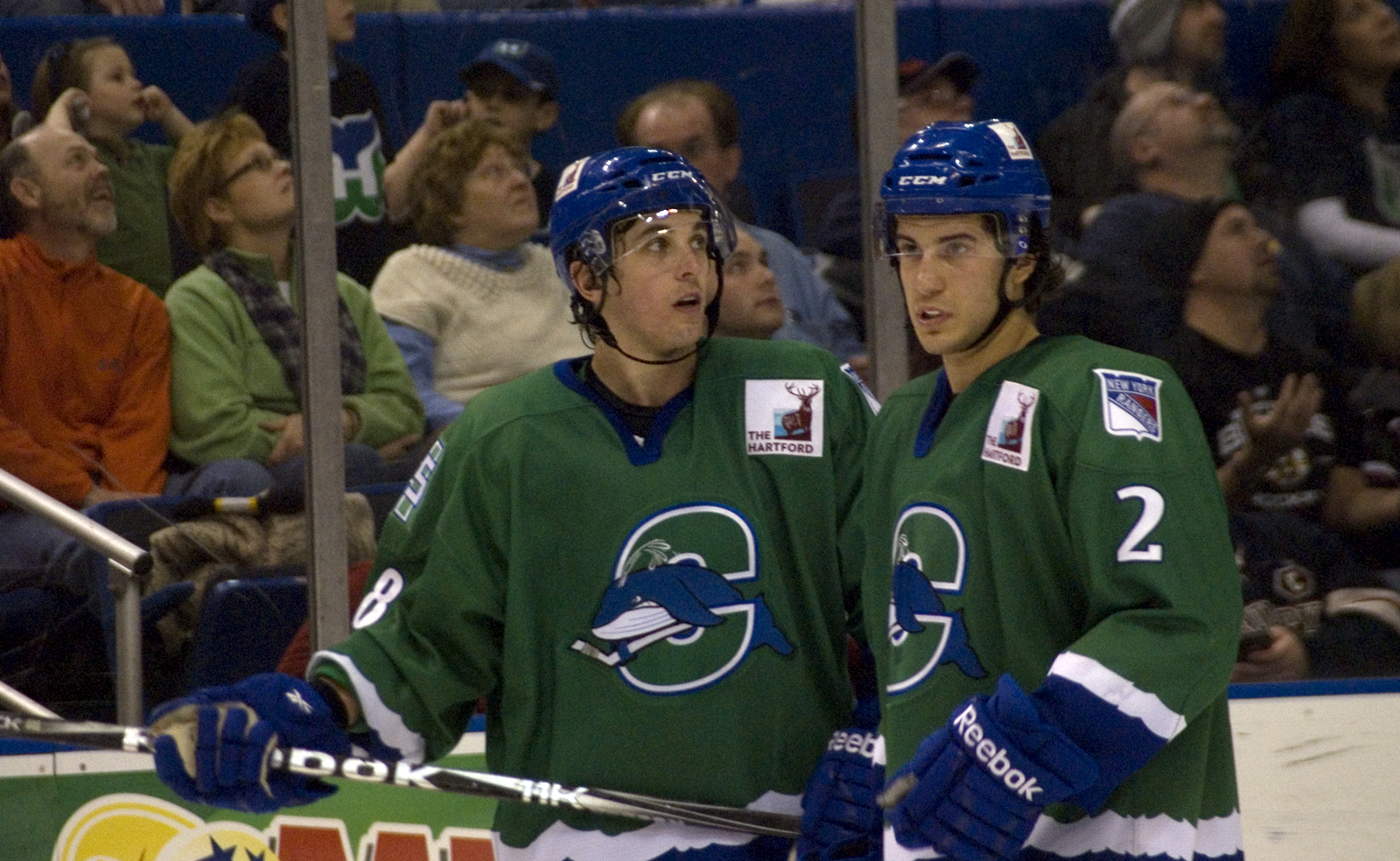 Jeremy Williams #18 and Michael Del Zotto #2. Providence Bruins vs Connecticut Whale in American Hockey League action at the XL Center in Hartford, Connecticut. This photo also appears in sarah_connors' Flickr photostream, and is one of a set of 216 "Providence @ Whale, 1/15/11" The picture displays text over its lower left corner. Tags: Boston Bruins, Providence Bruins, New York Rangers, Connecticut Whale, NHL, AHL, XL Center, hockey, icehockey, Hartford Wolf Pack